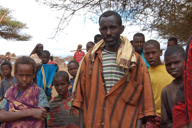 Bantus and others in the Bakool region of Somalia.